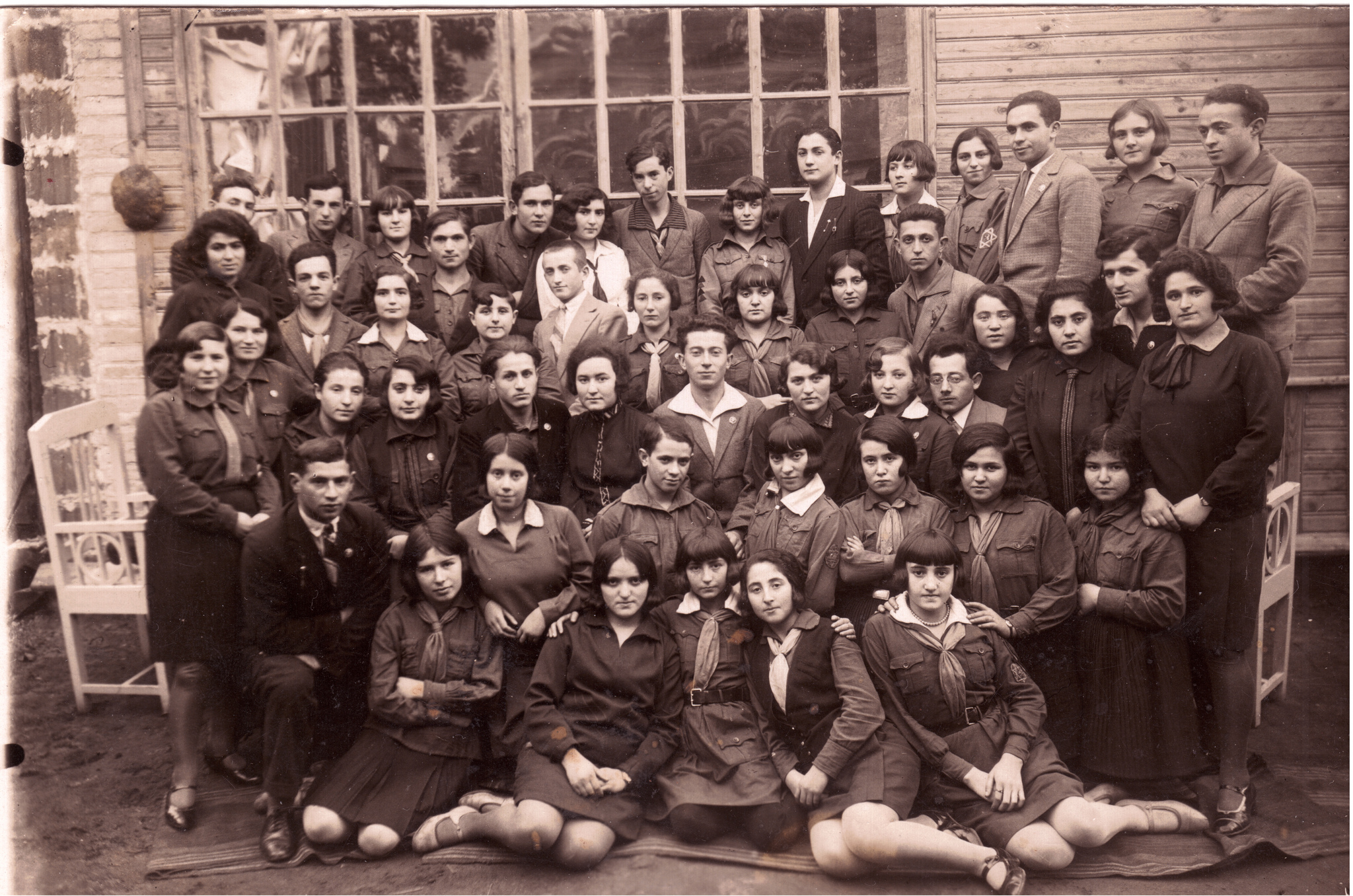 Hashomer Hatzair youth group of the city Slonim in Poland, 1934. The Hebrew Poet Gittl Mishkovsky is sitting in the second row, 3rd from the right side